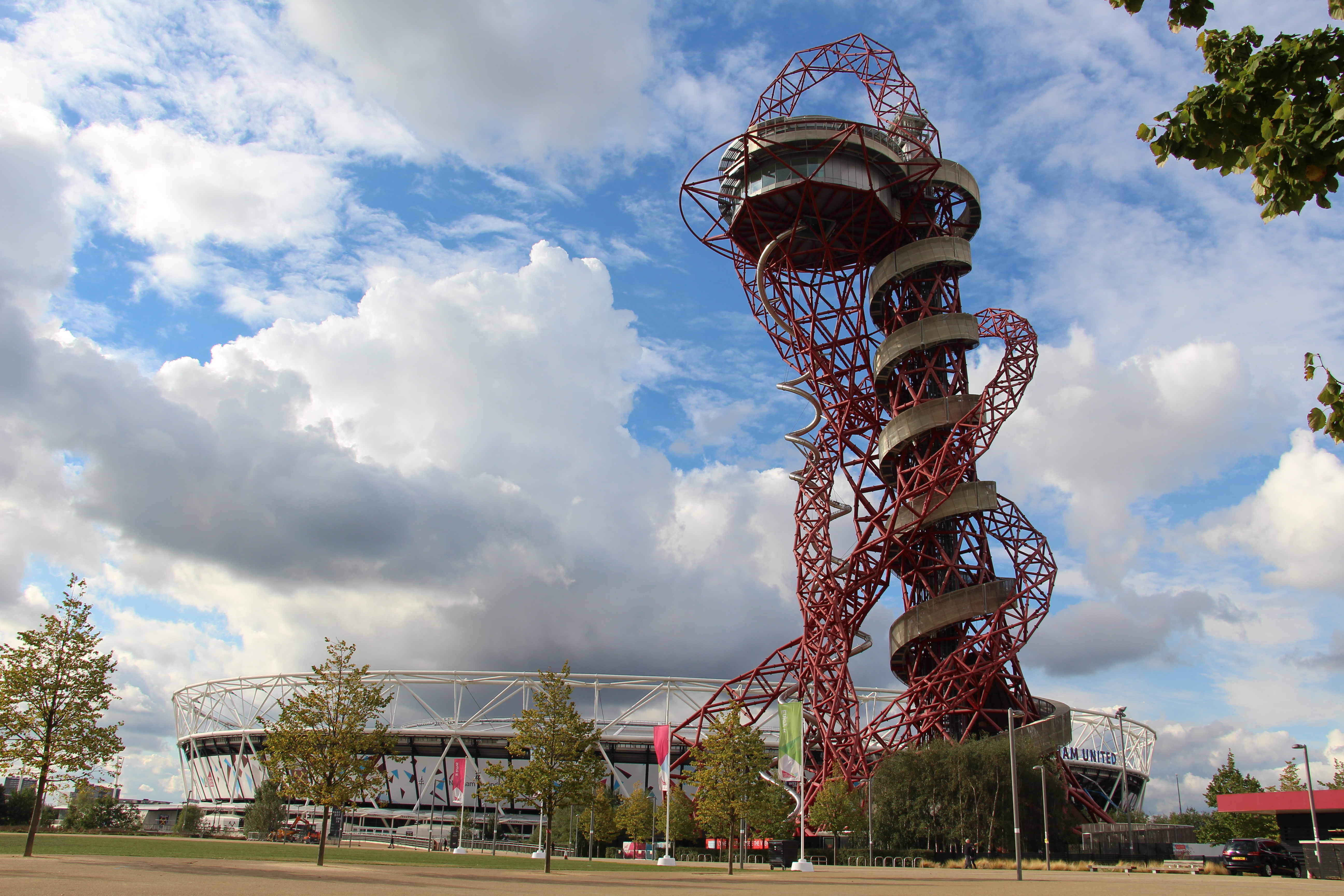 Queen Elizabeth Olympic Park, Thornton Street The ArcelorMittal Orbit is a 114.5-metre-tall sculpture and observation tower in the Queen Elizabeth Olympic Park. It is Britain's largest piece of public art, and is intended to be a permanent lasting legacy of London's hosting of the 2012 Summer Olympic Games. Des. & arch. Anish Kapoor with Sir Cecil Balmond of engineering Group Arup and Ushida Findlay Architects 2010-14.